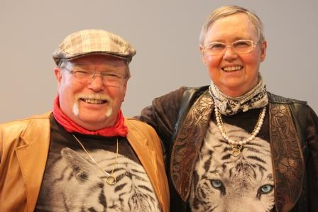 Iny Lorentz (2014)